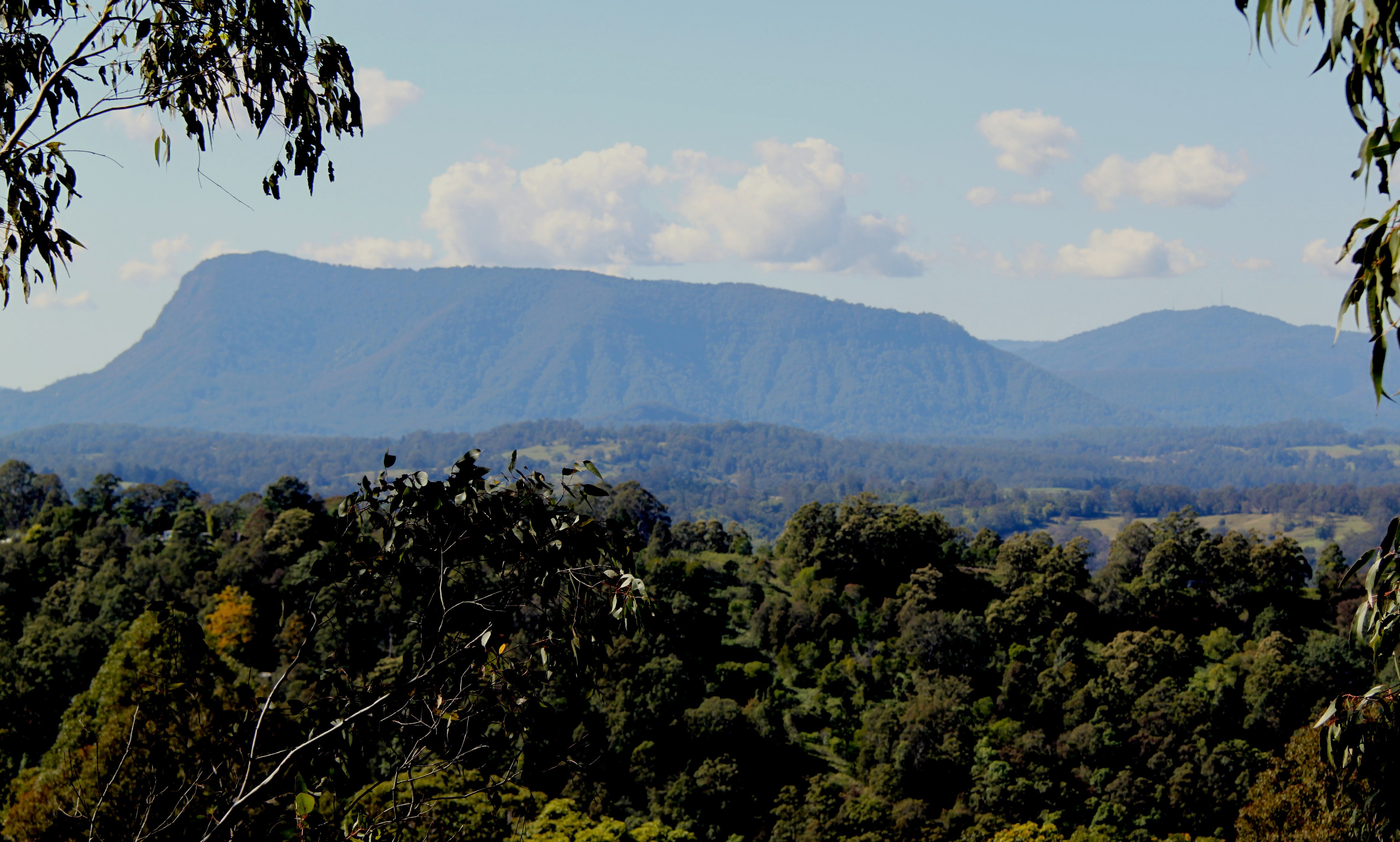 Distant view of Mount Burrell from the west, in the Nightcap Range of northern New South Wales (Tony Rees photograph)